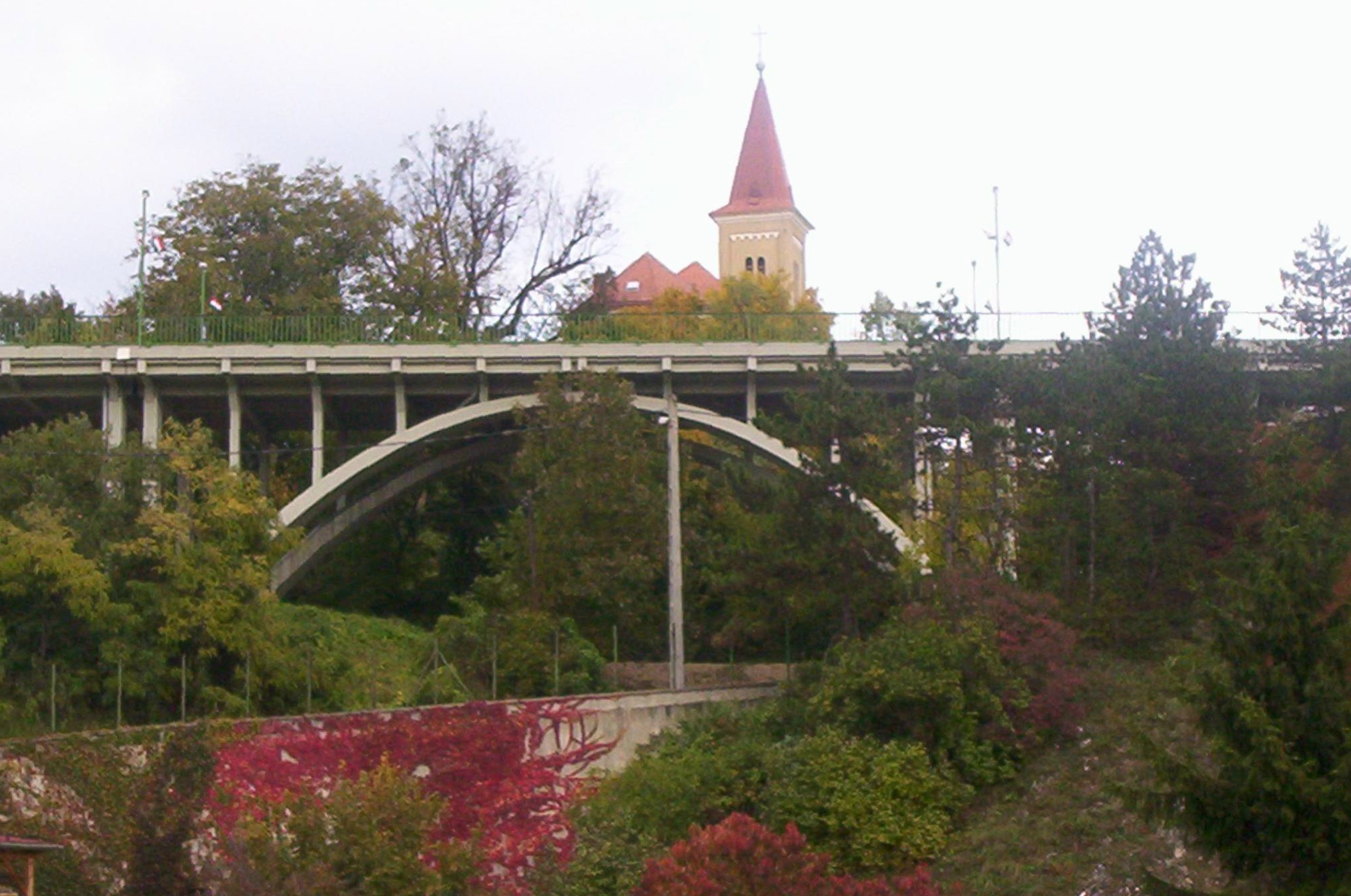 One of the arcs of the Viaduct and the Saint Ladislaus church in the background